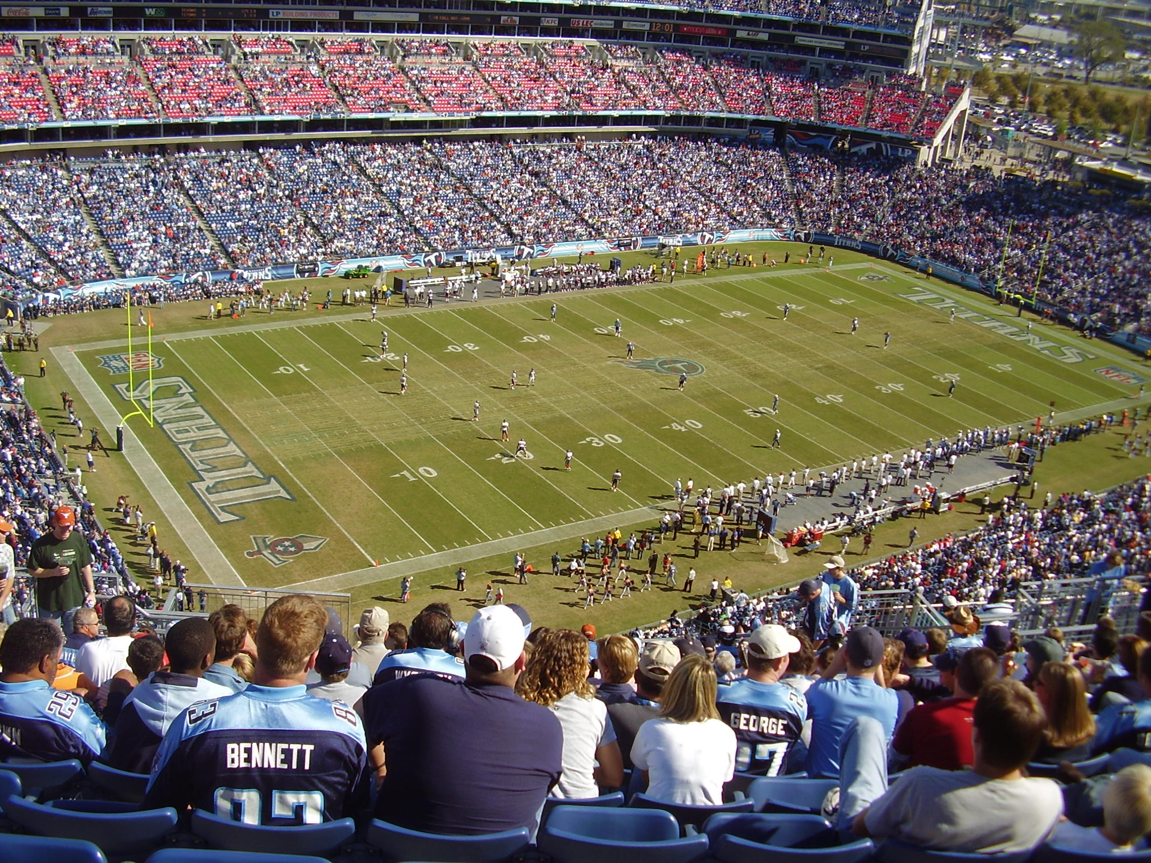 Picture taken from Section 341 inside LP Field in Nashville, Tennessee. Tennessee Titans vs. Houston Texans. October 29, 2006. 13:58, 30 October 2006 . . Zpb52 . . 2272×1704 (848,744 bytes)